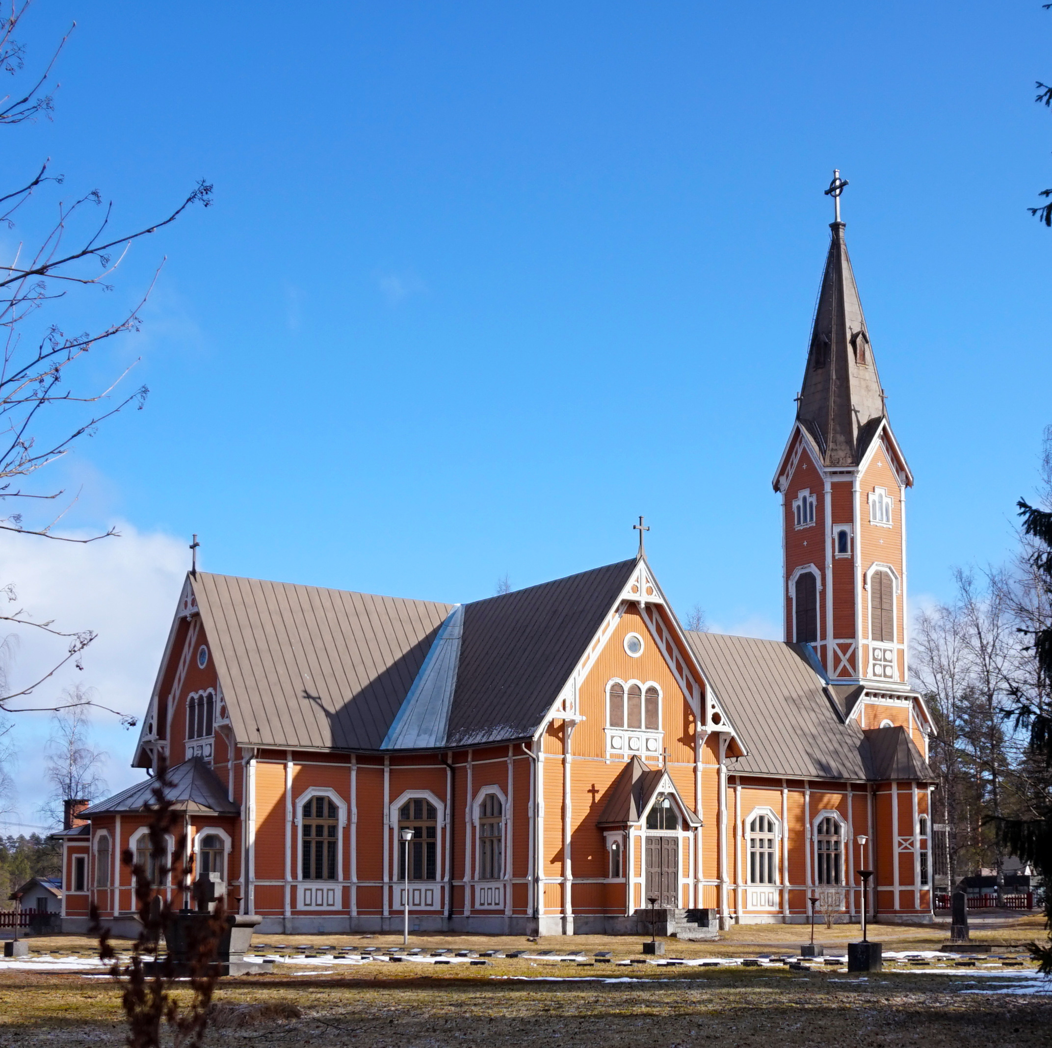 Multia Church.This photograph was taken with a Sony ILCE-5000